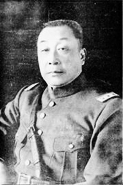 Zhu Qinglan